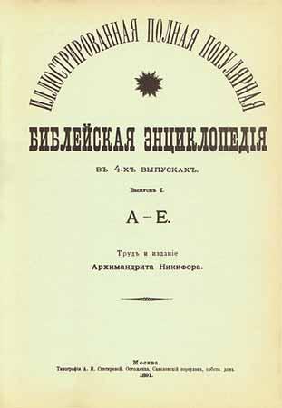 title page of popular bible encyclopedia of archimandrite Nikiphor (1891 year)